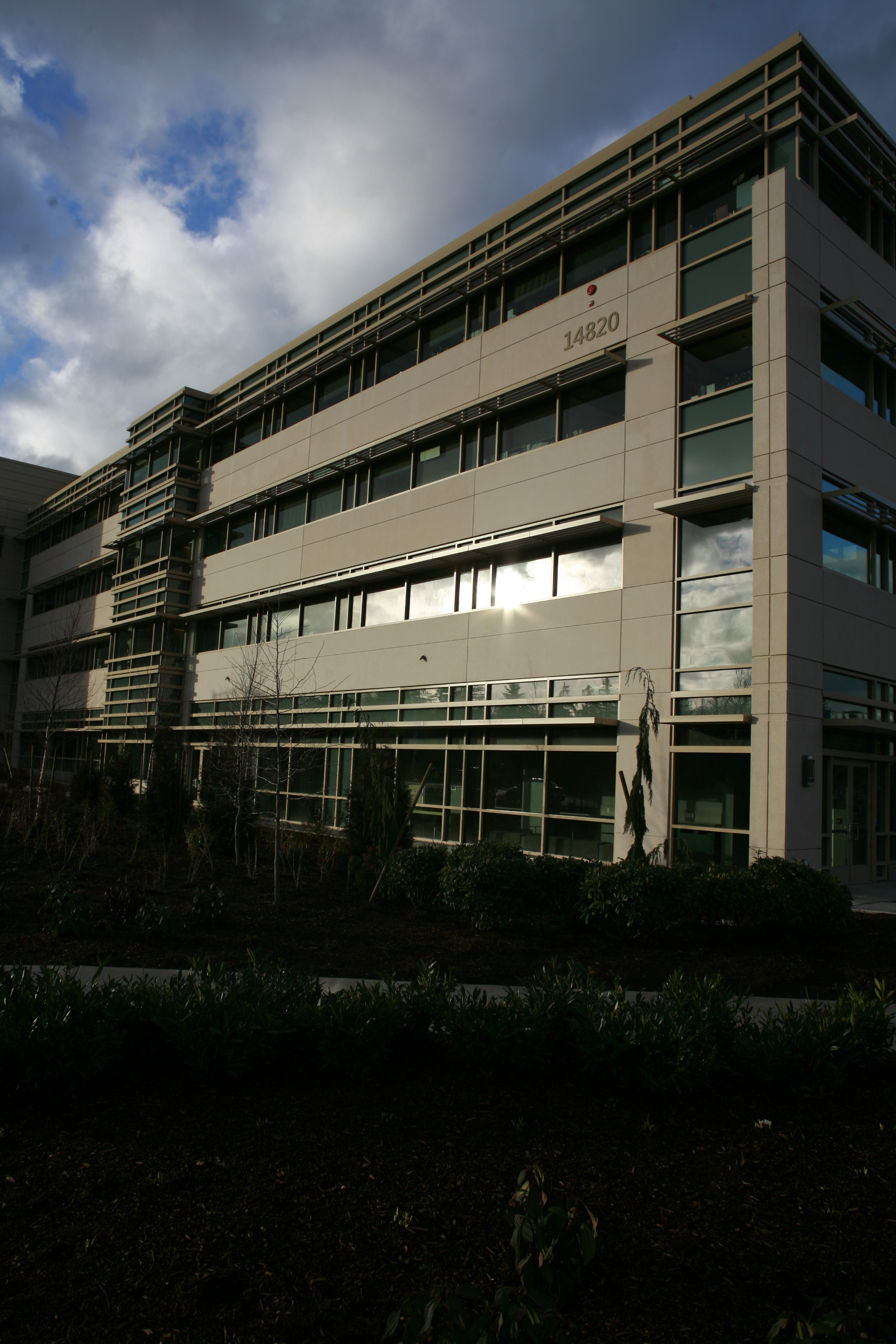 Microsoft's new Research building 99 in Redmond, WA.